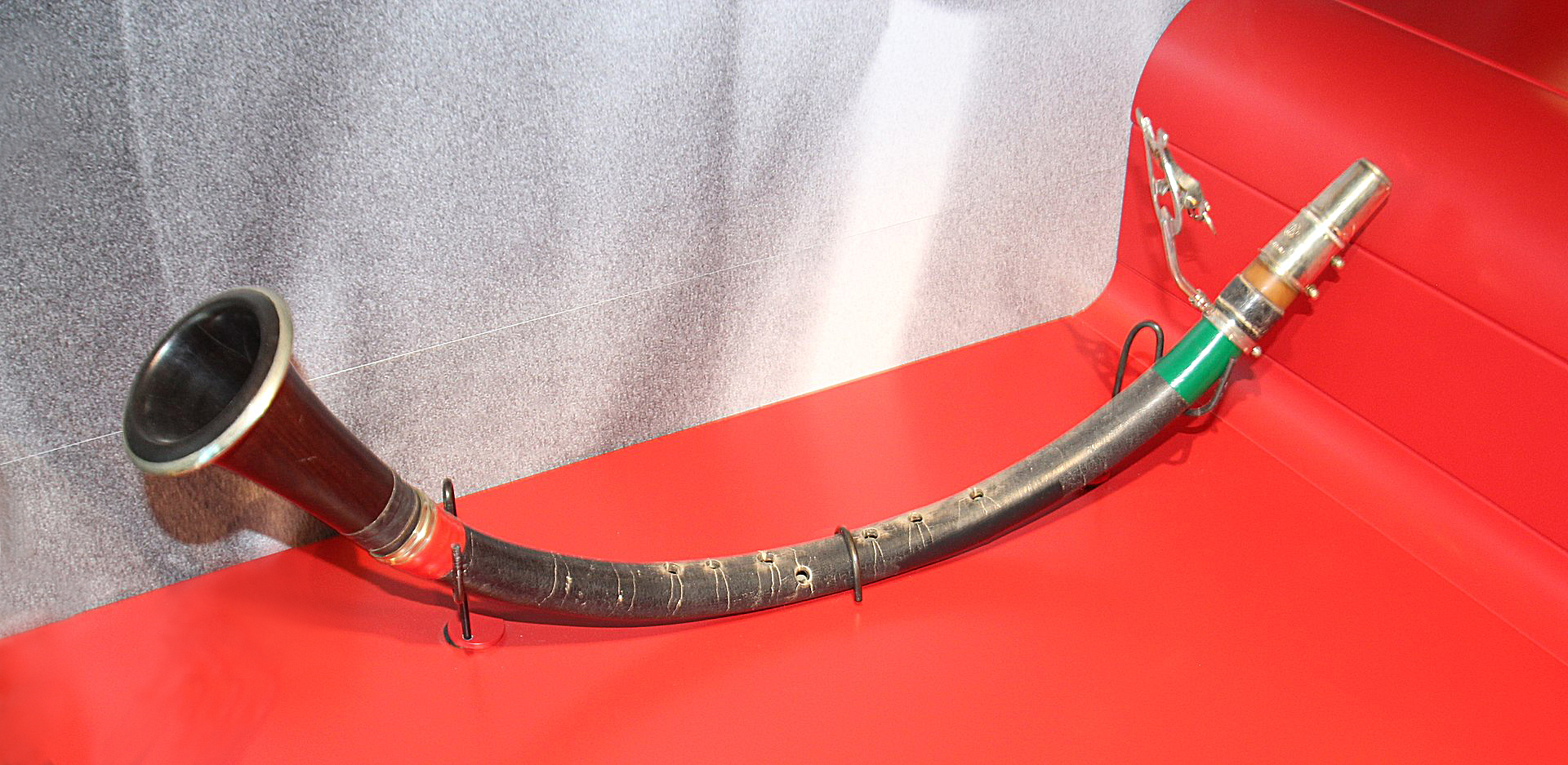 The Raymond Devos Museum is located in Saint-Rémy-lès-Chevreus, Yvelines, France. Object location48° 42′ 22.72″ N, 2° 04′ 33.53″ E